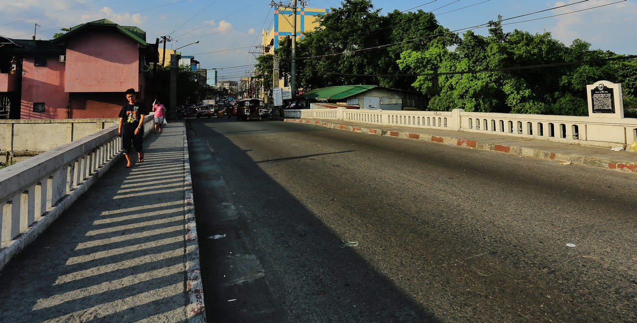 Tulay ng San Juan